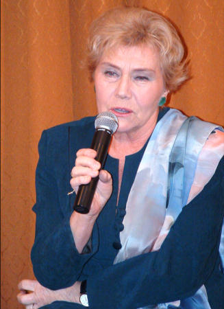 This image has been copied from the source with the permision of webmaster (and with the consent of the director of the service). The permission was granted to Stan Zurek (Zureks) via email from Mirosław Domański Teresa Lipowska